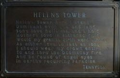 A mertal plate made about 1870 inscribed with Tennyson's poem Helen's Tower. Displayed in the upper room of the Helen's Tower, Clandeboye Estate